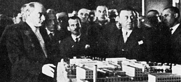 Mustafa Kemal (Atatürk) surveying the model of the quarter of Ministries (Vekâletler, present-day Bakanlıklar) at the Ministry of Interior Affairs.